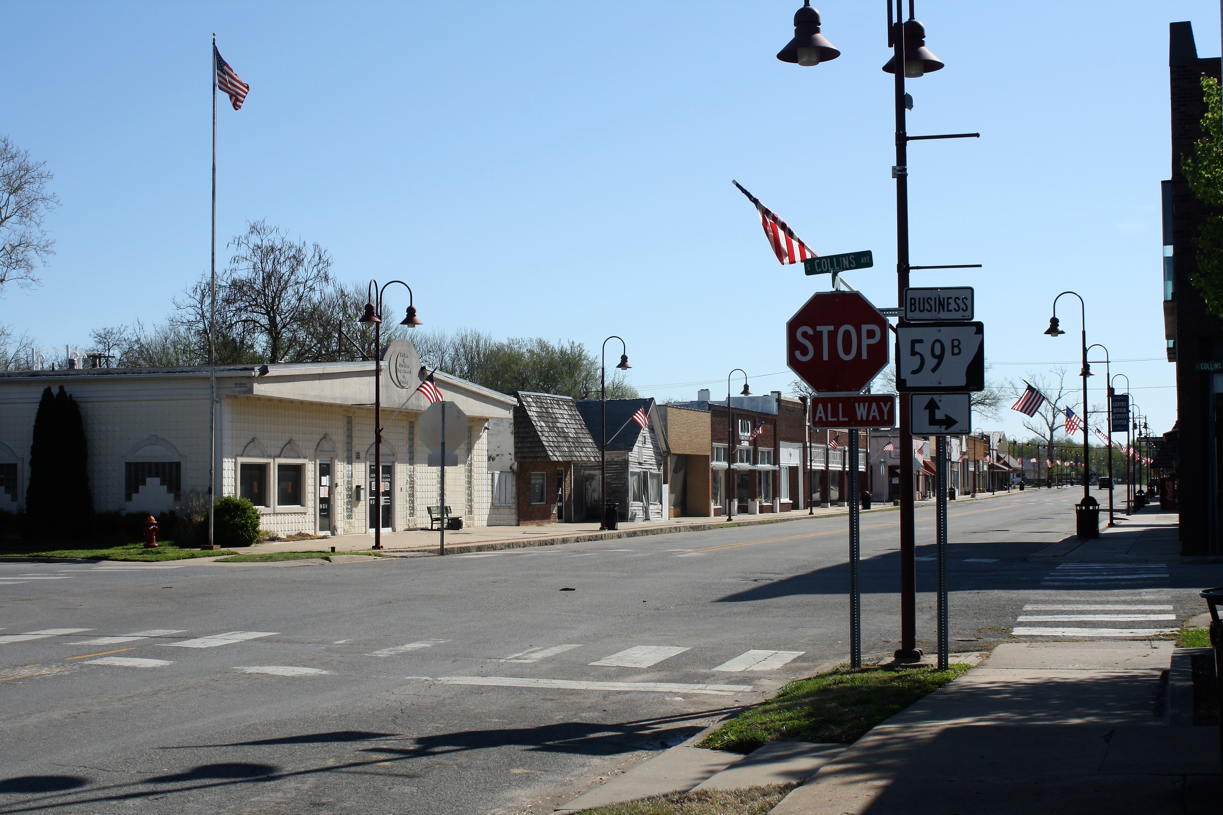 Arkansas Highway 59B turns onto Main Street near City Hall in downtown Gentry, Arkansas